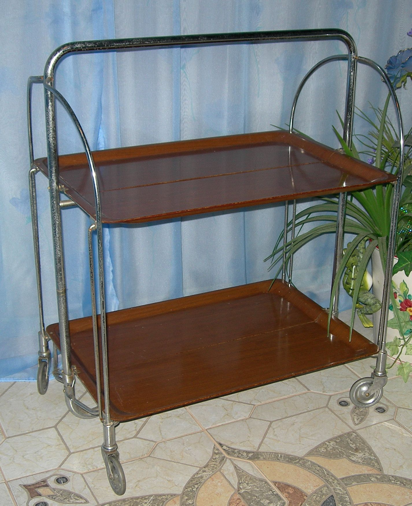 Teewagen Dinett 1960s, (tea-wagon)